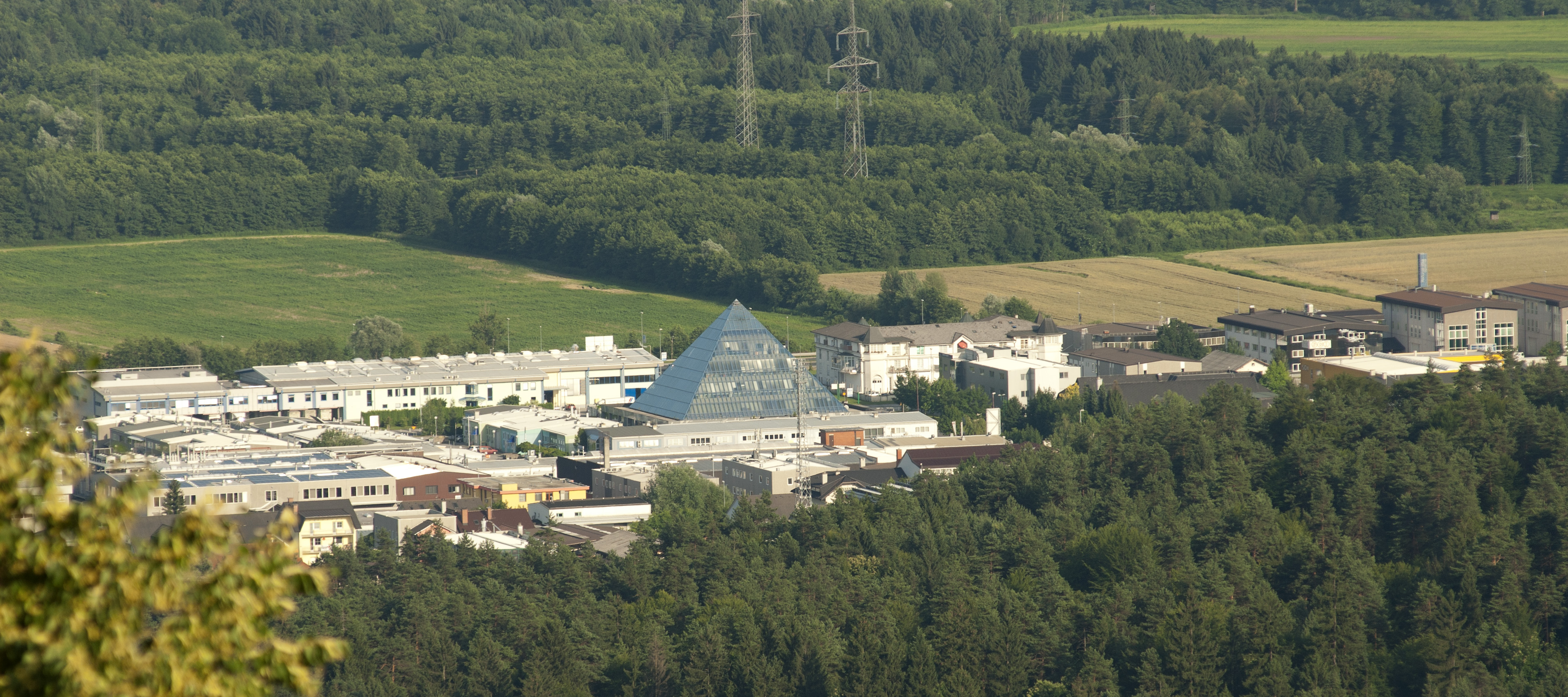 Industrial zone Trzin